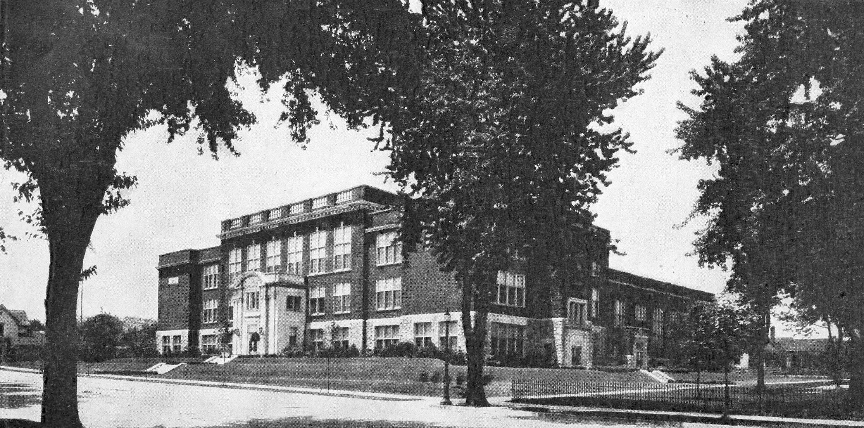 Title: High-school buildings and grounds Year: 1922 (1920s) Authors: National education association of the United States. Commission on the reorganization of secondary education Subjects: School buildings School grounds. (from old catalog) Publisher: Washington, Govt. print. off. Text Appearing Before Image: JUNIOR ANNEXES, ETC. 49 From tile solutiou descrihoil ami illiistrated it uiust he ai)i)areiit tliat thosuccessful workiuj; out of the alteration of an old high school for enlargedschool uses can not he given in any hut the most general terms. A carefulexamination of the plan presented herewith must make it apparent to thereader and ohserver that at hest the solution of the prohlem is hut a series ofcomproniisos. The degree of success of iiuch altered and enhirged huildings isentirely dependent upon the care with which all the controlling elements areweighed and measured. o Text Appearing After Image: DEPARTMENT OF THE INTERIOR BUREAU OF EDUCATION BULLETIN. 1922. No. 23 HIGH-SCHOOL BUILDINGSAND GROUNDS A REPORT OF THE COMMISSION ONTHE REORGANIZATION OF SECOND-ARY EDUCATION, APPOINTED BY THENATIONAL EDUCATION ASSOCIATION